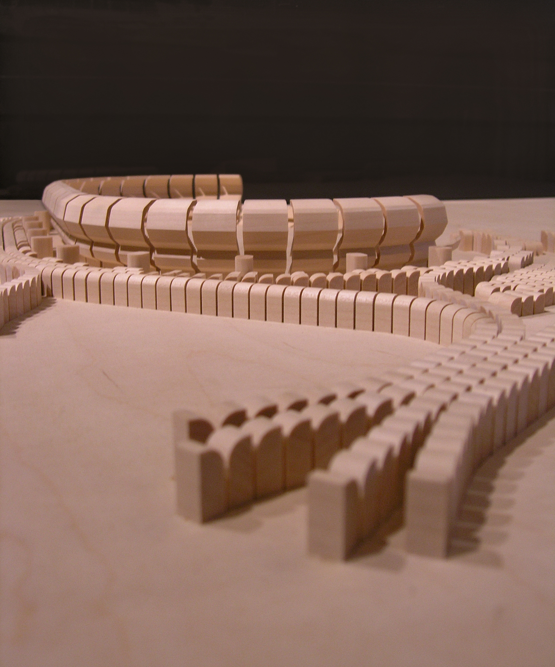 Photograph of Jørn Utzon's model for a sports stadium in Jeddah, Saudi Arabia. The model, created in 1967, was shown at the Utzon exhibition in Venice 2008.